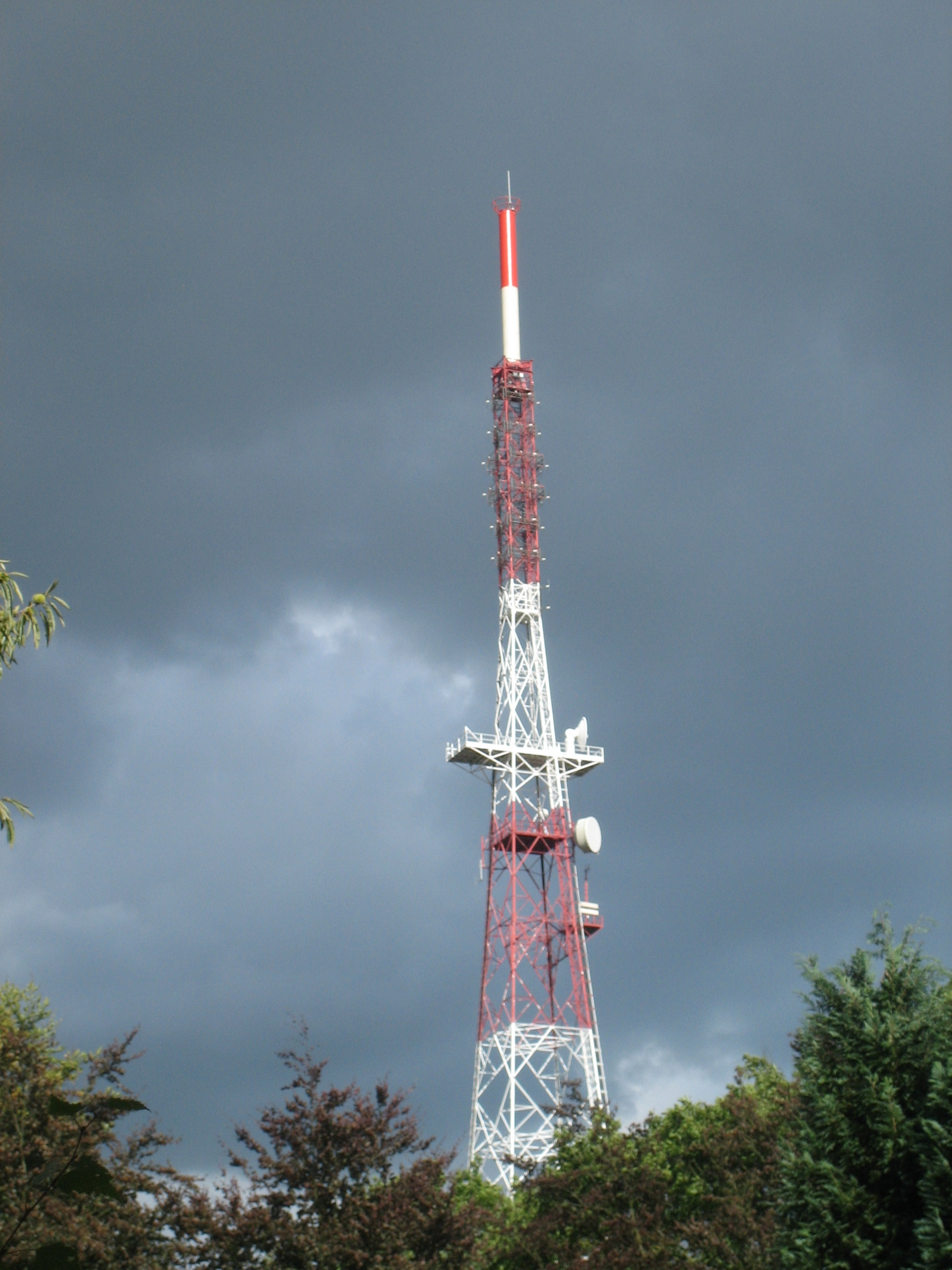 Communication tower TV Norkring, Schoten